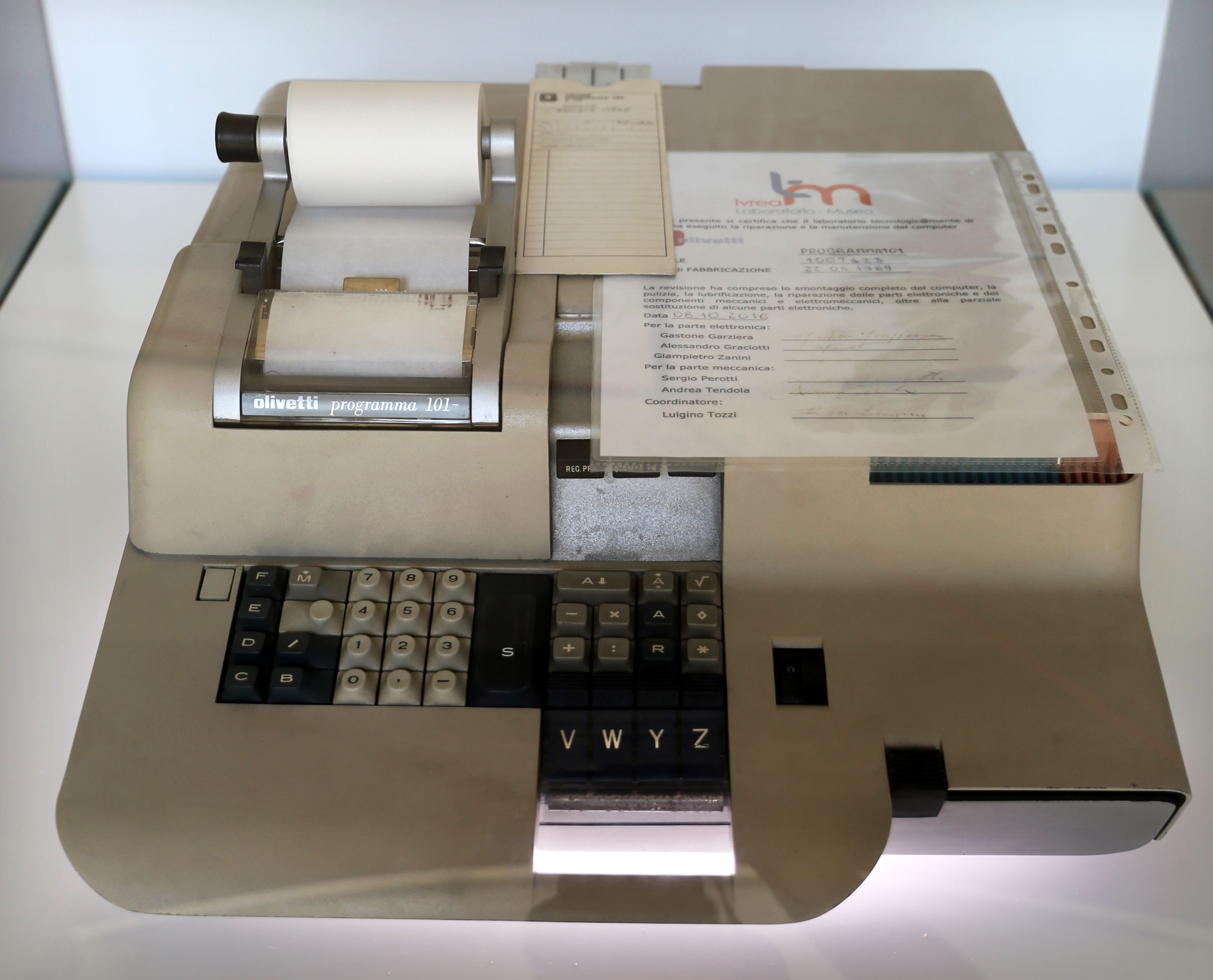 Computers in the Museum of Computing Instruments of Pisa